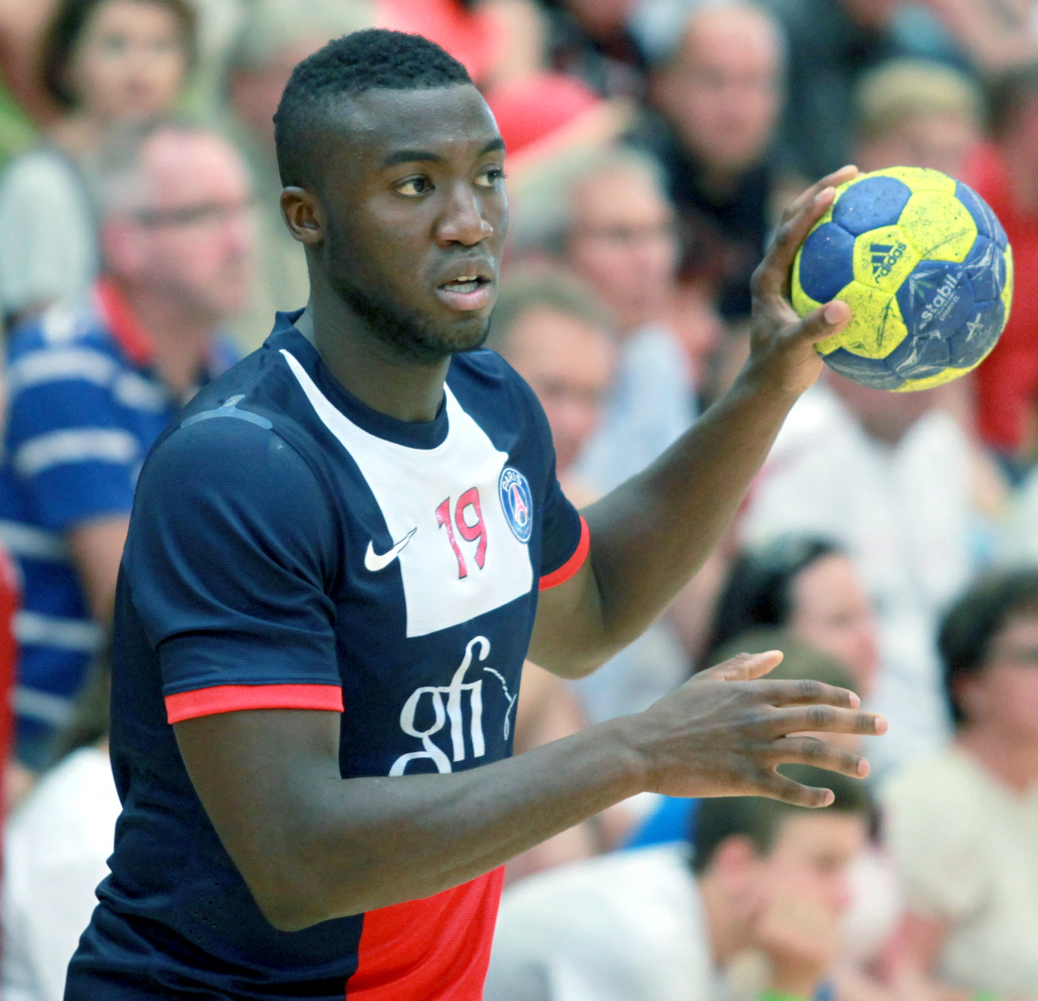 Luc Abalo, on August 17th, 2013 in Ehingen (Germany), during the Sparkassen Cup (formerly known as Schlecker Cup).